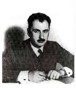 Image of Gheorghe I. (Ion) Brătianu (1898 - 1953), Romanian historican. Son of late Prime Minister Ion I.C. Brătianu (1864 - 1927) and Maria Brătianu, born princess Moruzzi-Cuza